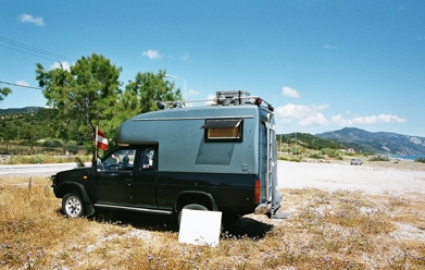 A small camper car Austrian tourists at the Kallonis Bay on Lesbos, Greece Photograph taken in May 2003 by Henryk Kotowski and released under the terms of GFDL licence